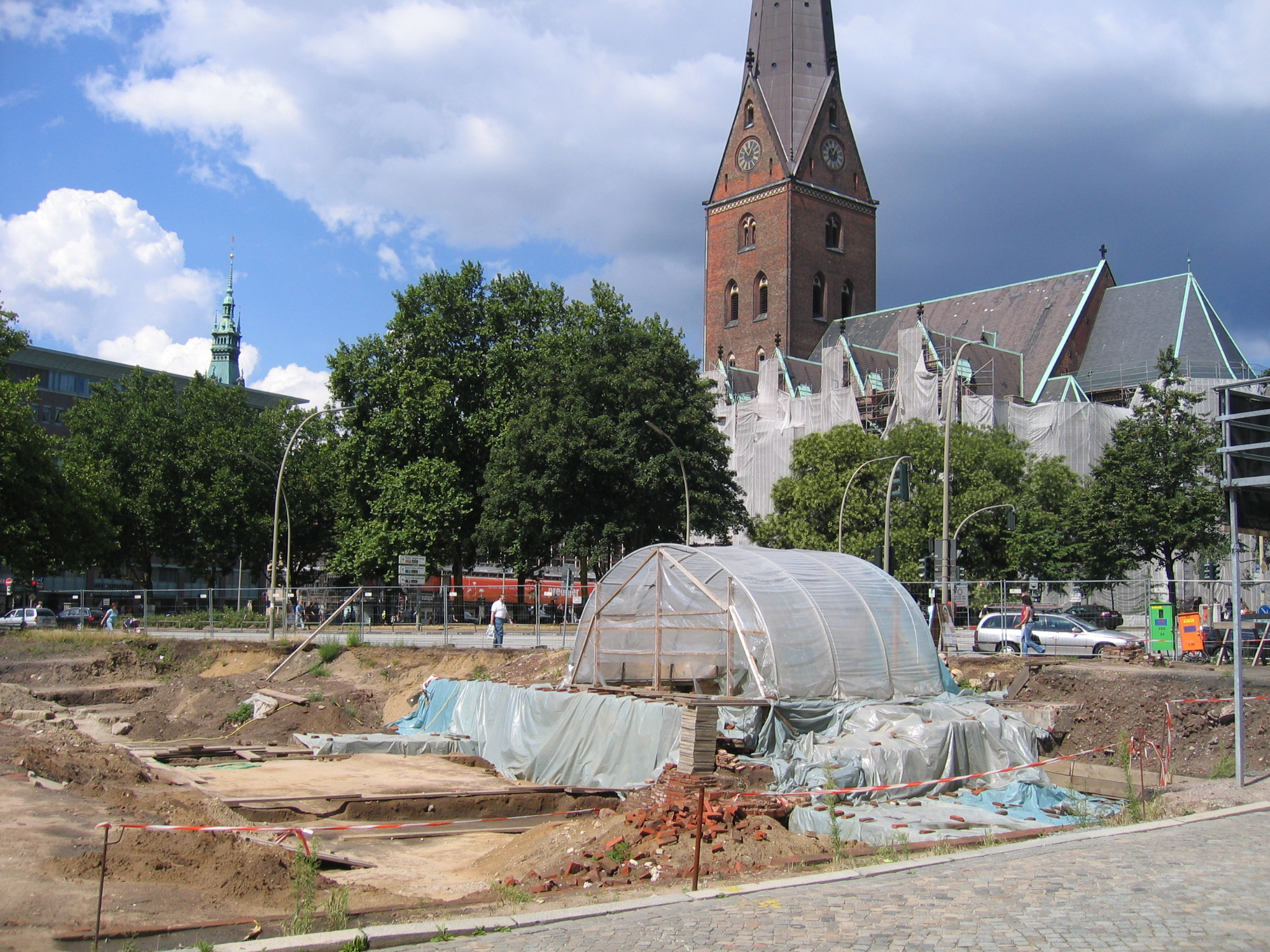 Domplatz Hamburg with archaeological excarvations in August 2006. They have found old remains of the Hammaburg.